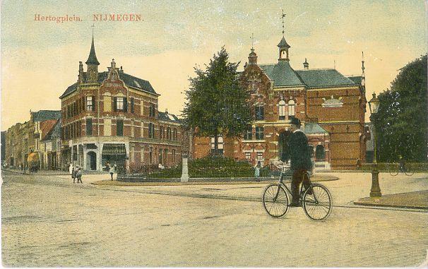 Hertogplein, Nijmegen